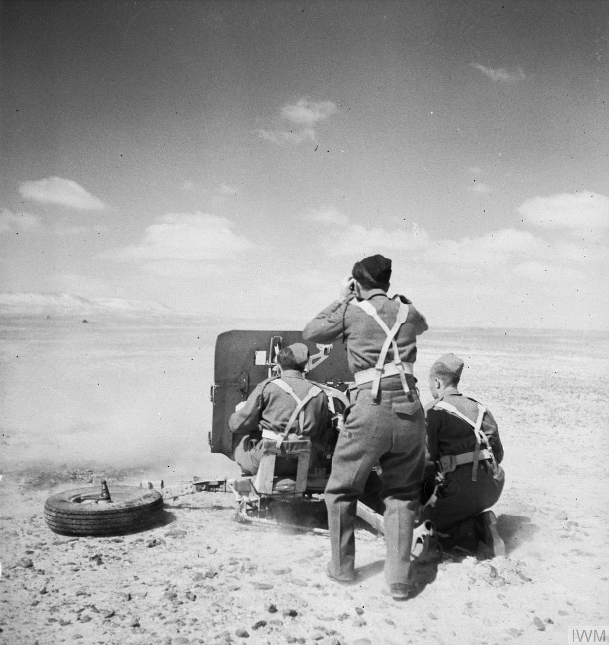 The British Army in the Middle East 1942 A 2-pdr anti-tank gun being manned by members of 2nd Rifle Brigade, 24 March 1942.